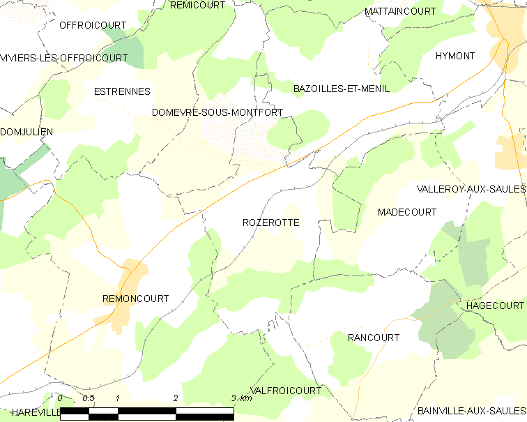 Map of French municipality Rozerotte